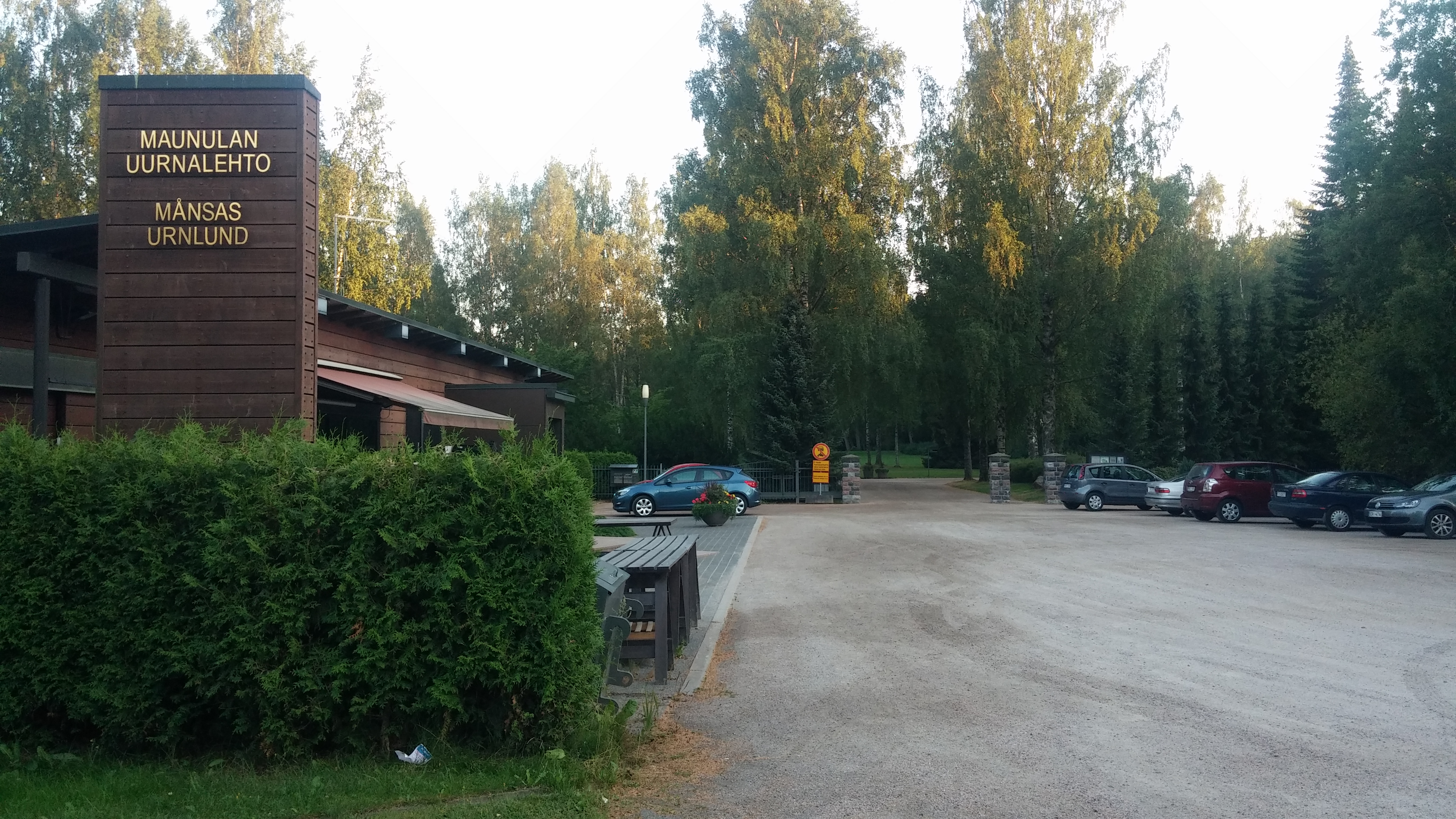 Maunulan uurnalehto is a cemetery in Helsinki, Finland.